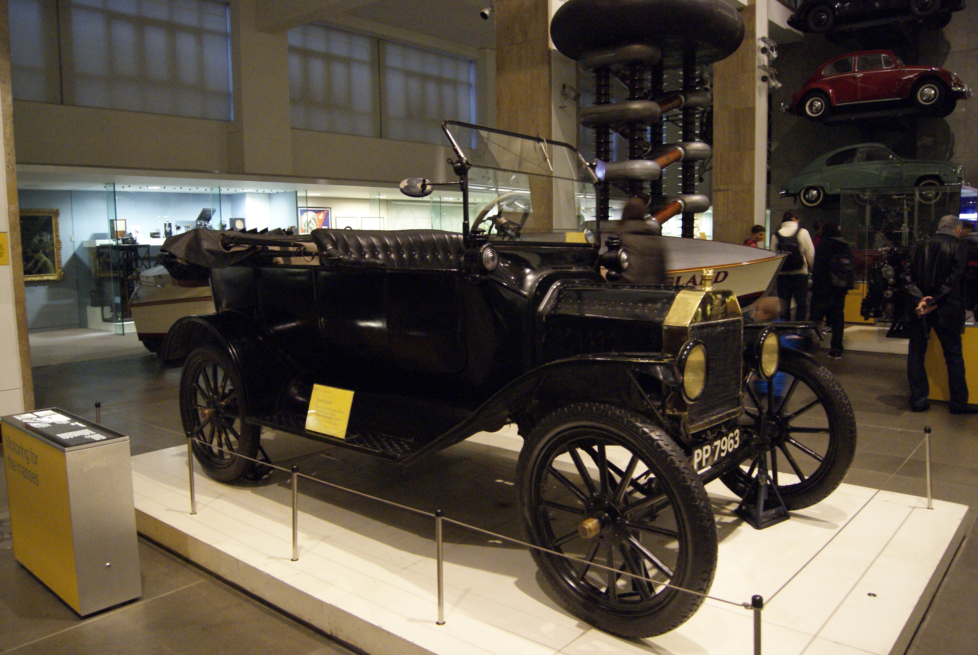 Ford Model T kept in the Science Museum, London.